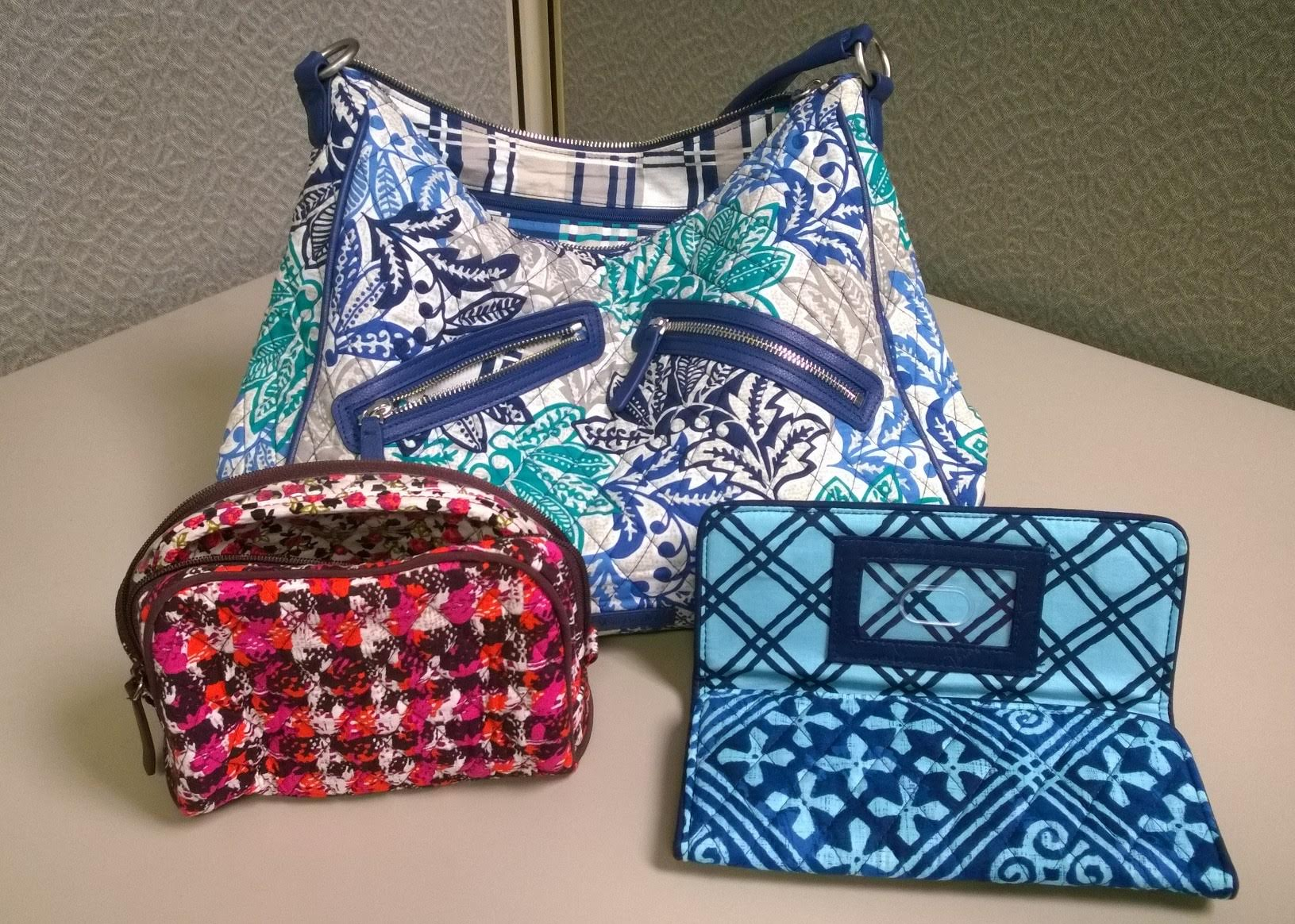 Open Vera Bradley purse, makeup bag, and wallet, showing distinctive diamond quilting stitches and contrasting internal cotton fabrics